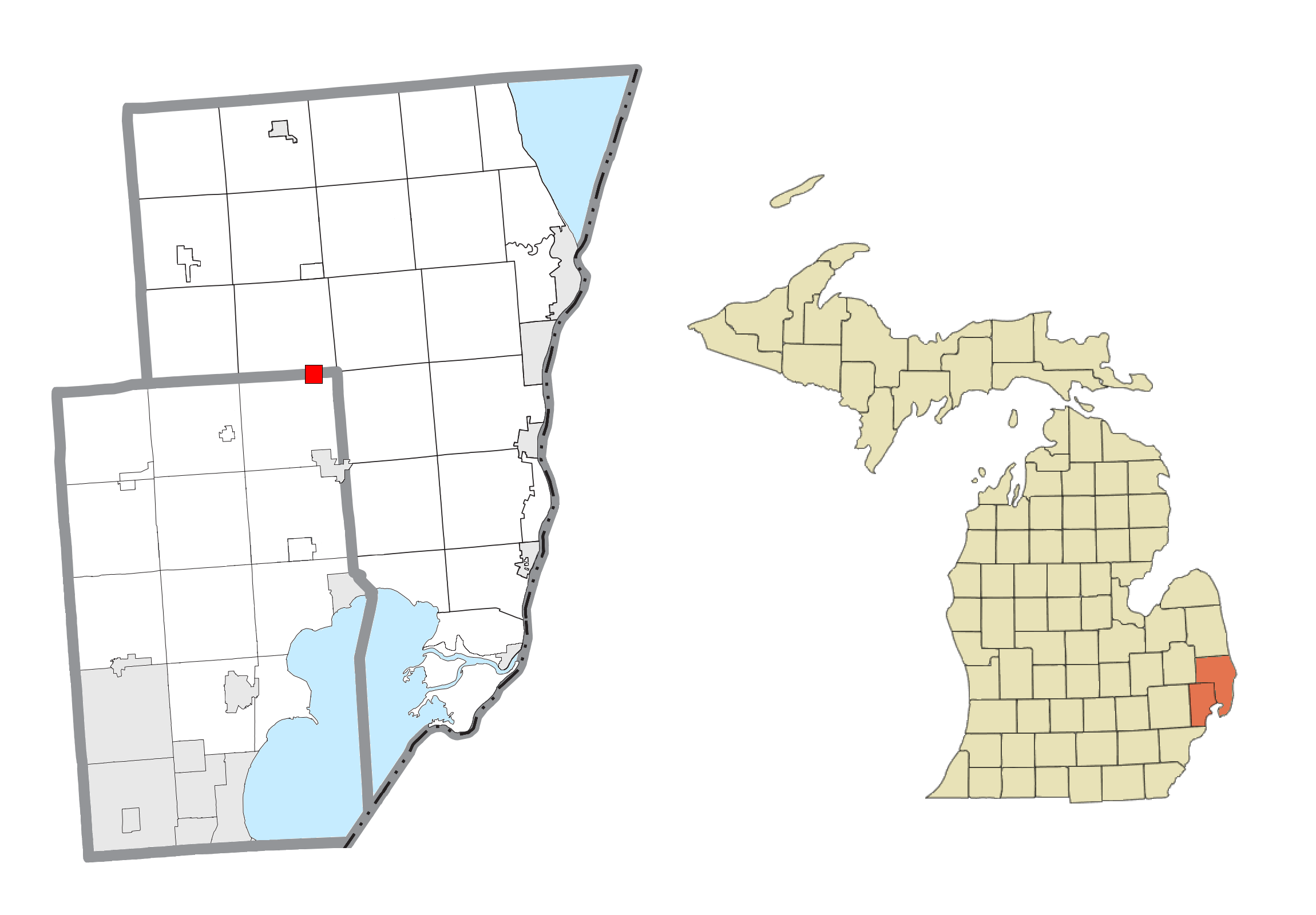 Memphis, MI